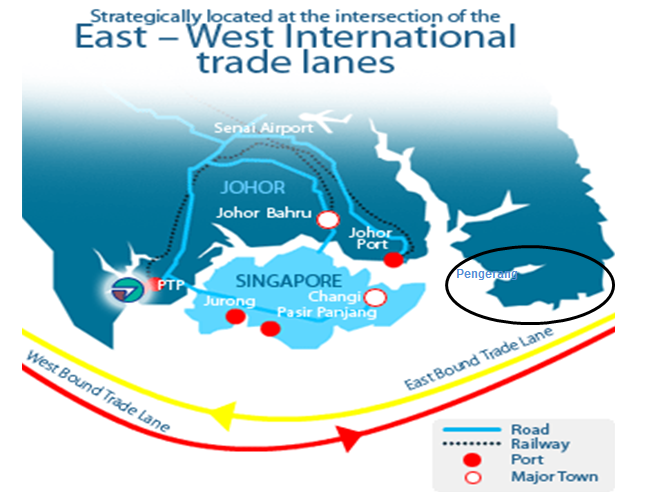 Pengerang is located at the south eastern tip in the district of Kota Tinggi, the state of Johor, Malaysia.